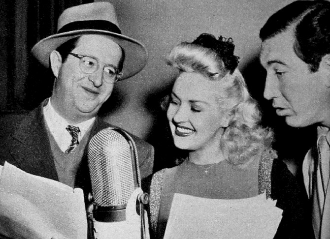 Photo of Phil Silvers, Betty Grable and Rags Ragland during a broadcast of the radio program "Mail Call". Renewal searches were done in periodicals for the years 1970 and 1971. There were no listings for the title "Modern Screen"; there's no evidence of current copyright.